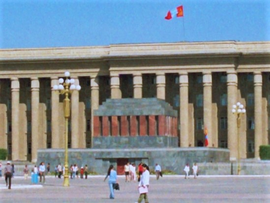 Government building and Sühbataar's mausoleum, Ulan Bator, Mongolia